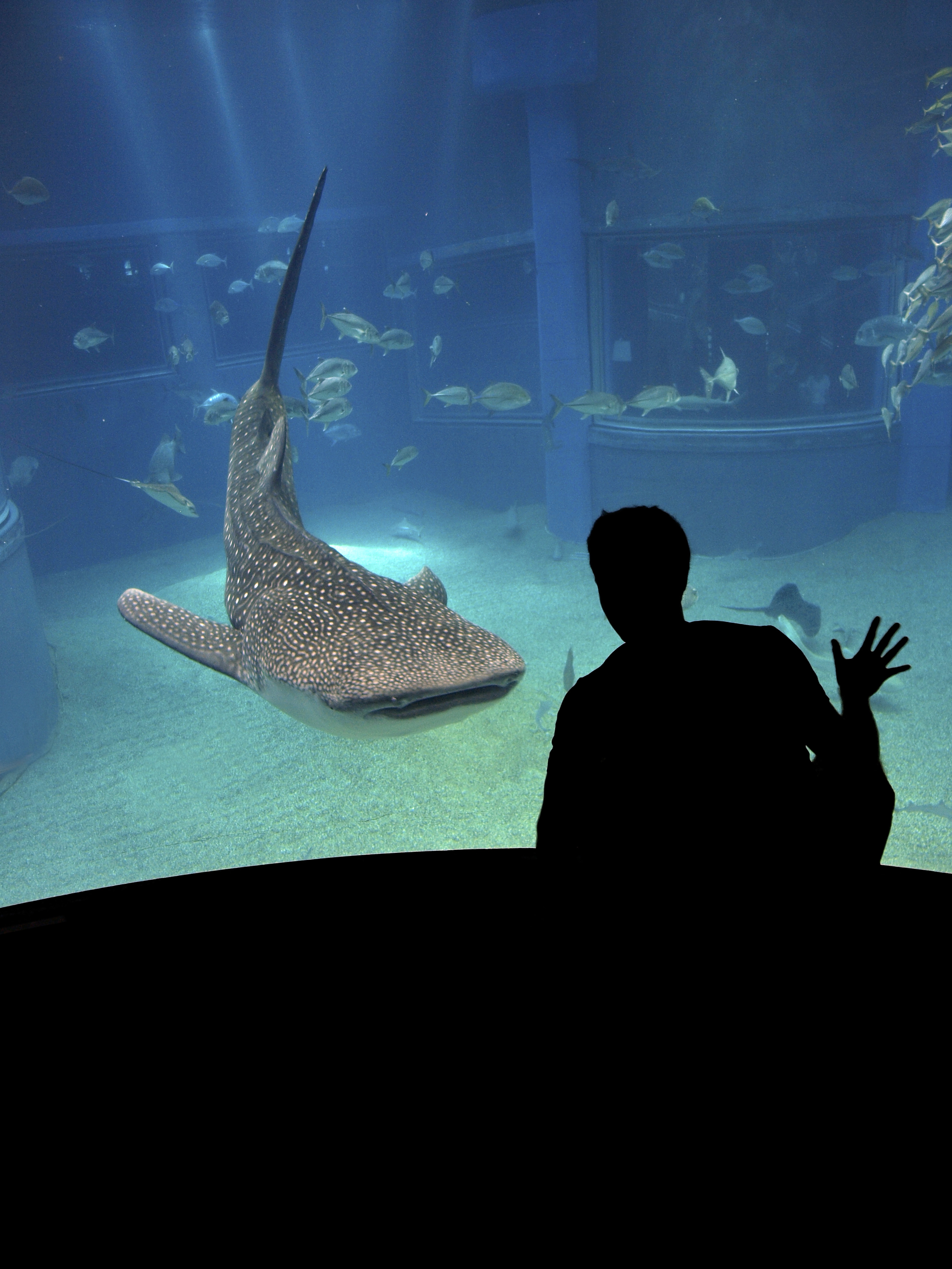 Whale shark at the Osaka Aquarium main tank exhibit